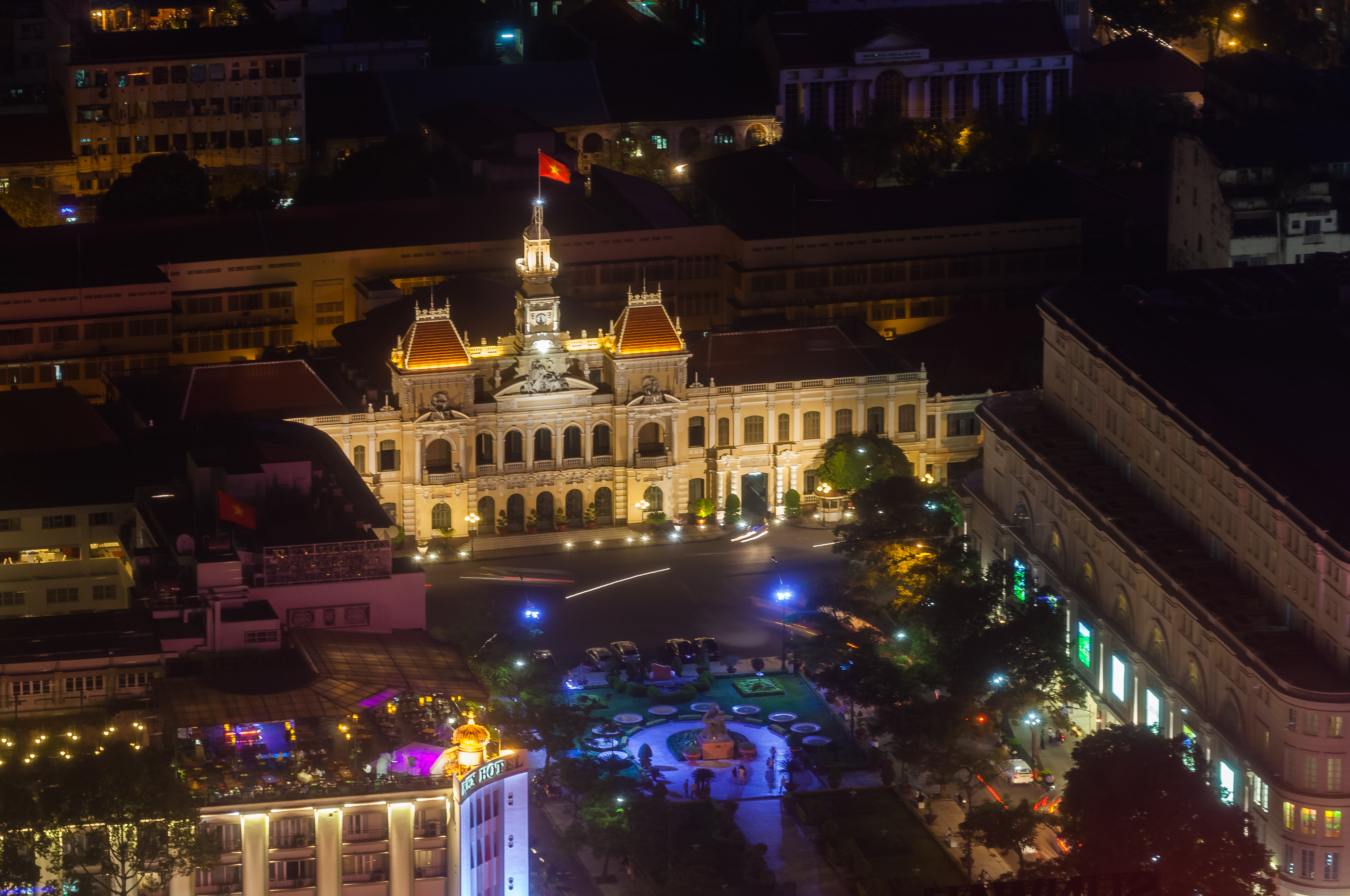 City hall, Ho Chi Minh City, Vietnam